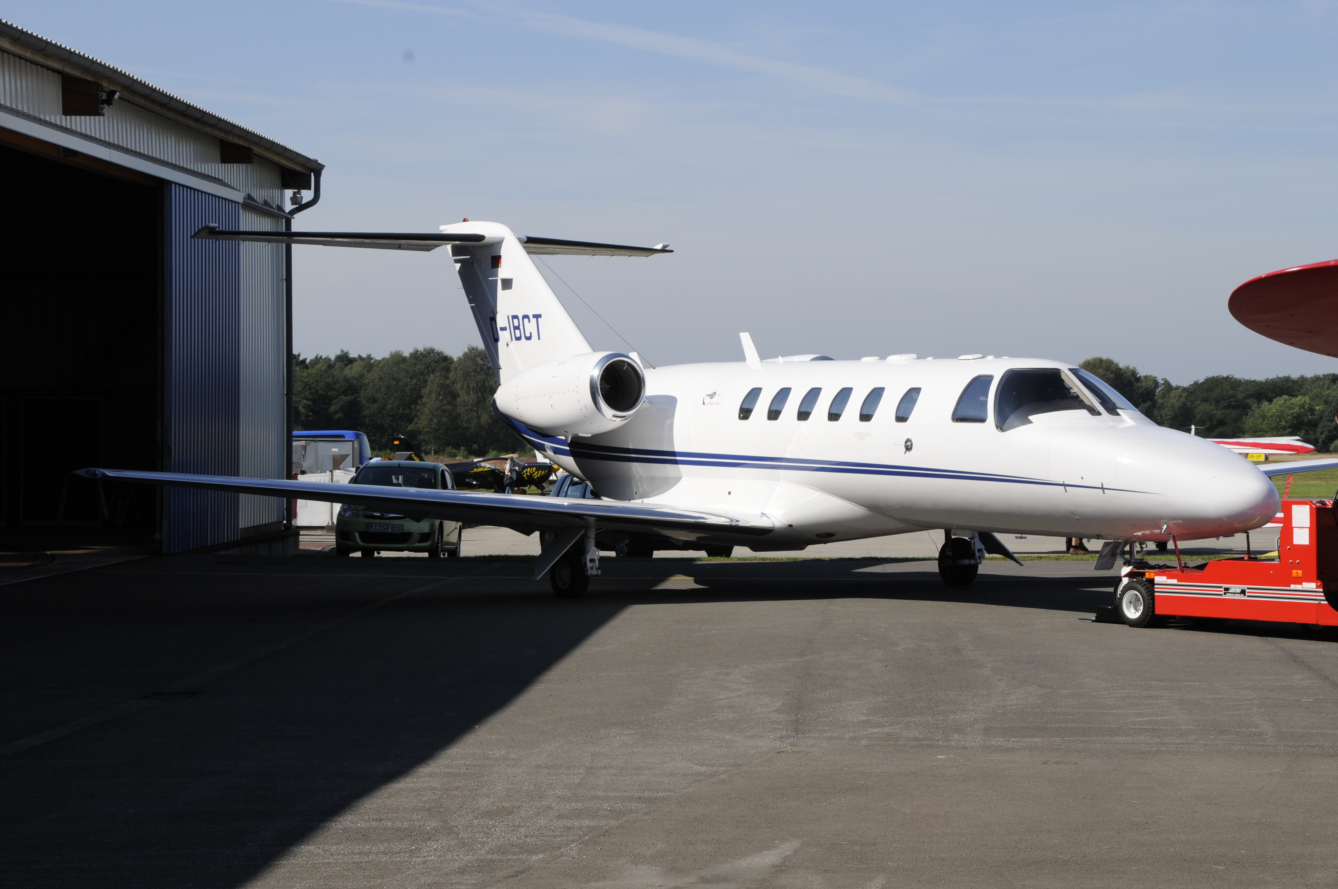 Cessna Citation CJ2+ at Bielefeld Airport.